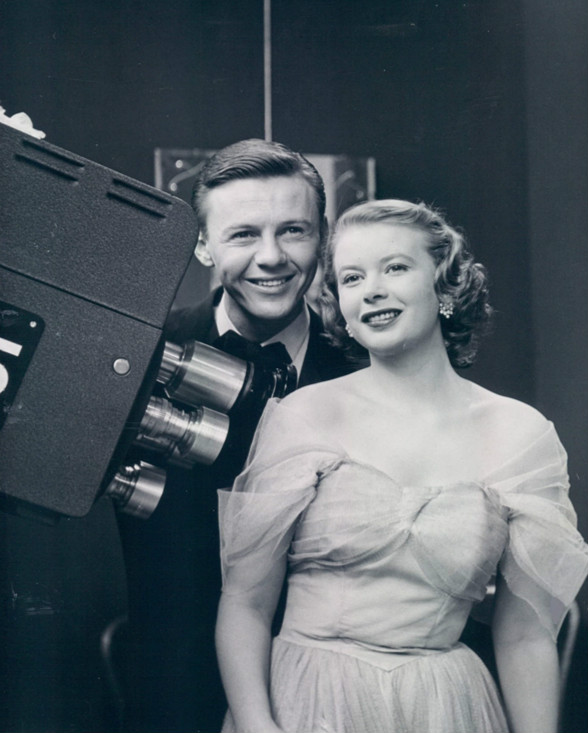 Photo of Jimmy Lydon and Olive Stacey as newlyweds Chris and Connie from the CBS daytime drama ;;The First Hundred Years.